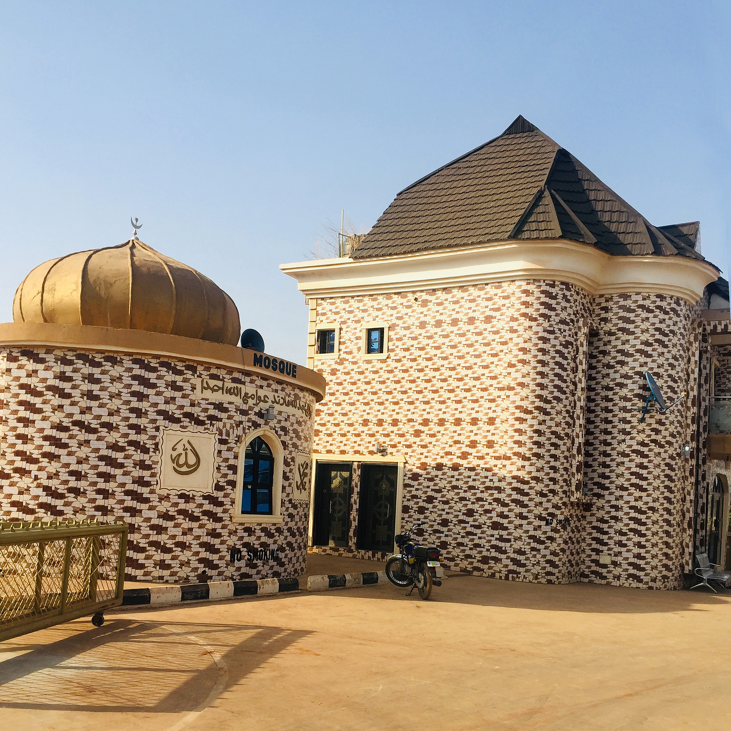 This is an image with the theme "Play" from: Nigeria